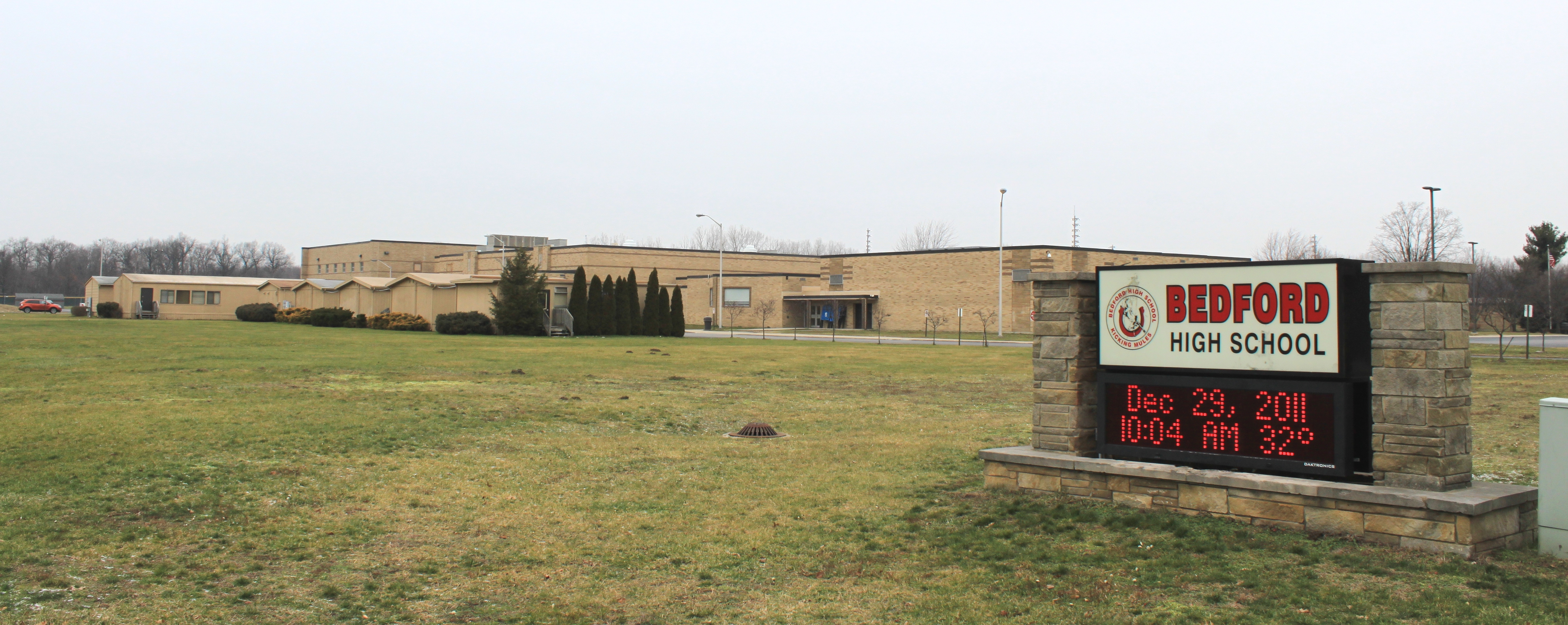 Bedford High School, 8285 Jackman Road, Temperance, Michigan.